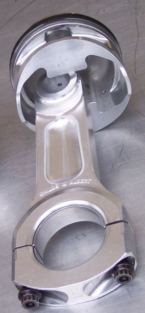 Kolben+Pleuel / piston+rod